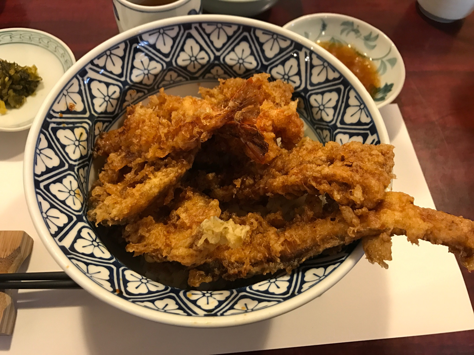 tendon shrimp rice